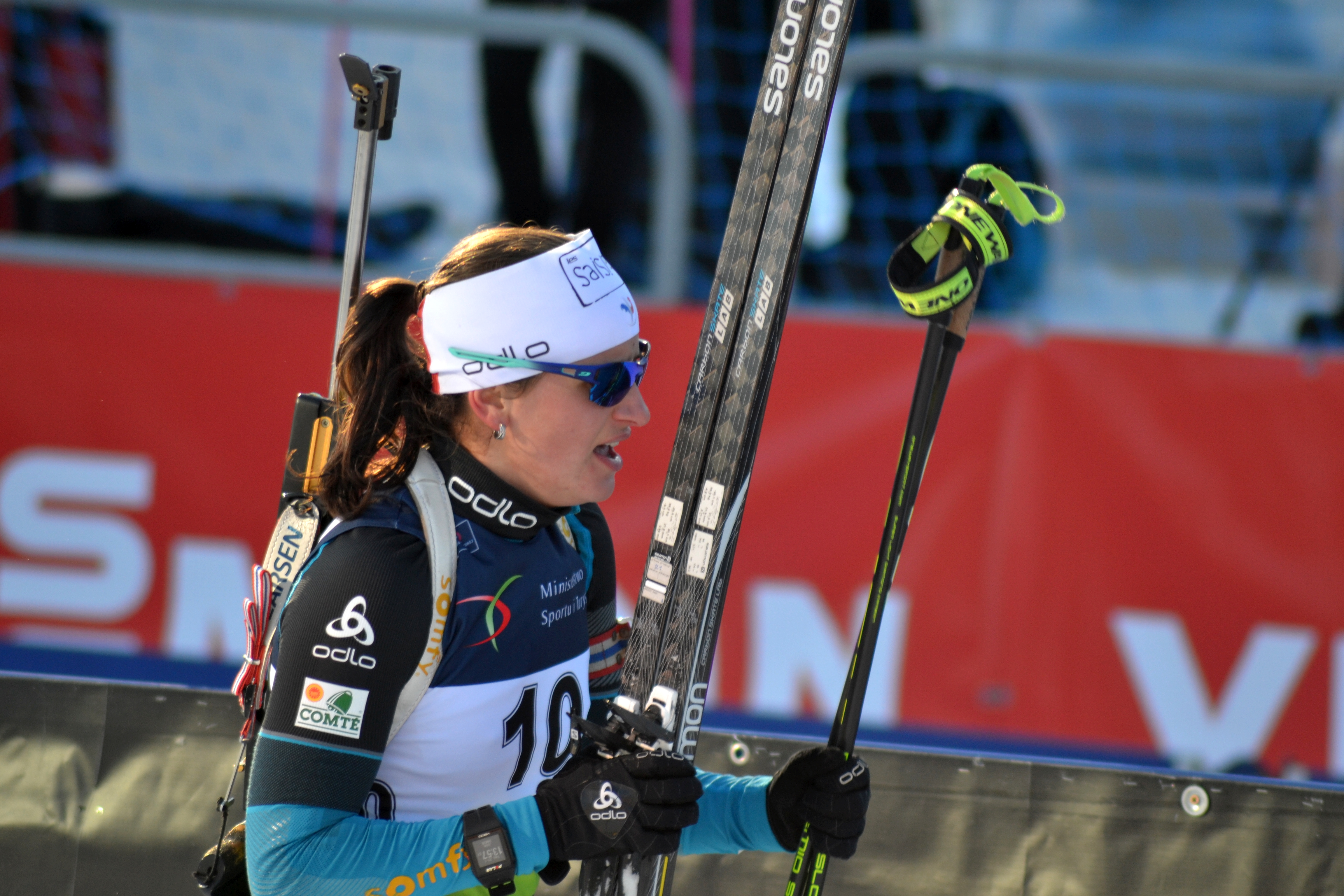 Open European Championships Biathlon 2017, Sprint Women's race, held on January 27th.